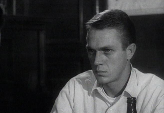 Screenshot of Steve McQueen in film The Great St. Louis Bank Robbery (1959).